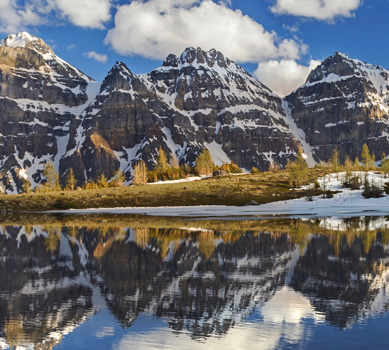 Tonsa from Lower Minnestimma Lake, Banff Park, Alberta